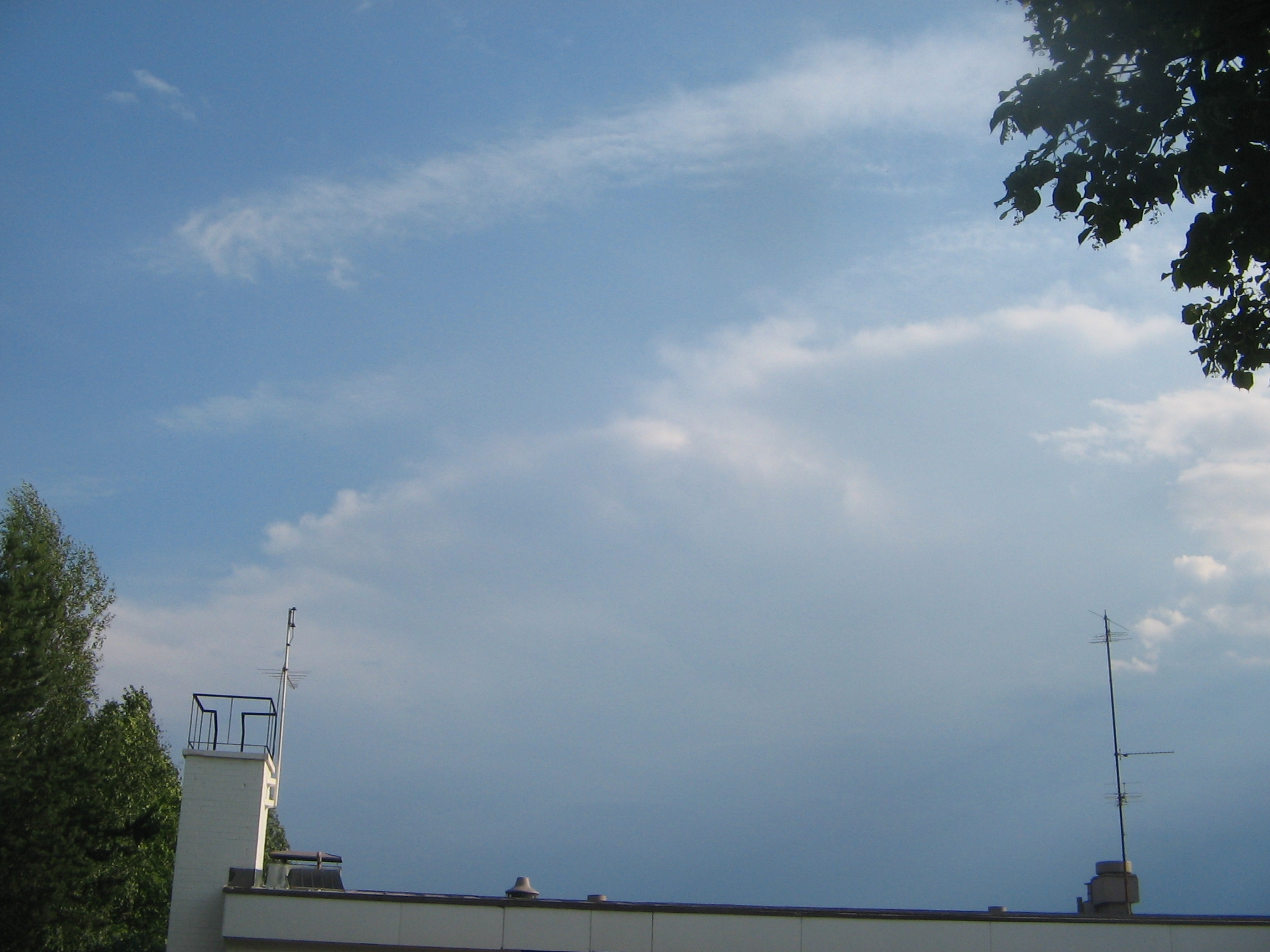 Weather/Cloud types/ Nearby Cumulonimbus incus front, anvil is up, dark lower side down.